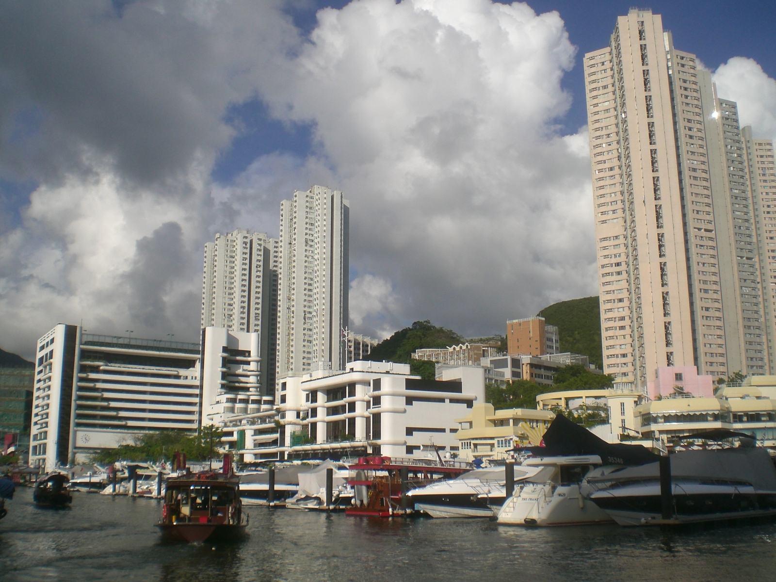 由zh:深灣遊艇碼頭近觀深灣道建築物 - 包括: 雅濤閣 & 深灣遊艇俱樂部 & 南濤閣